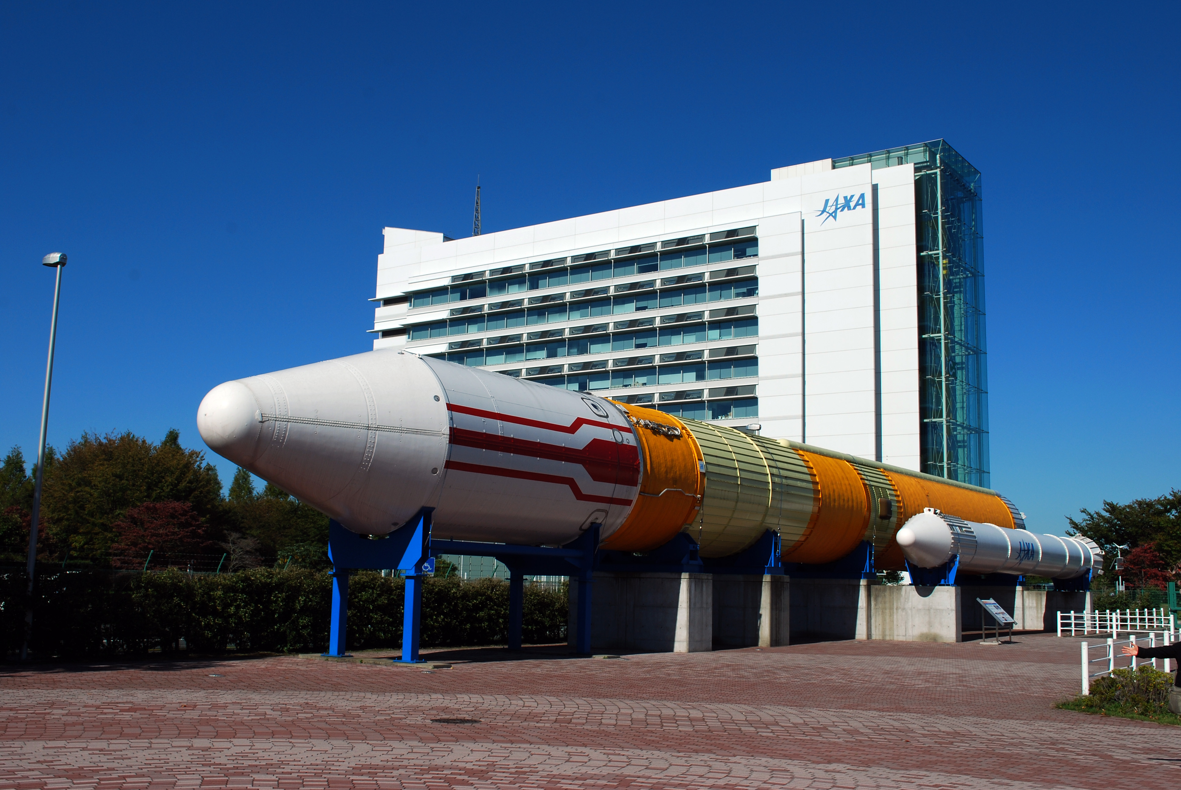 Tsukuba Space Center main building and HII rocket